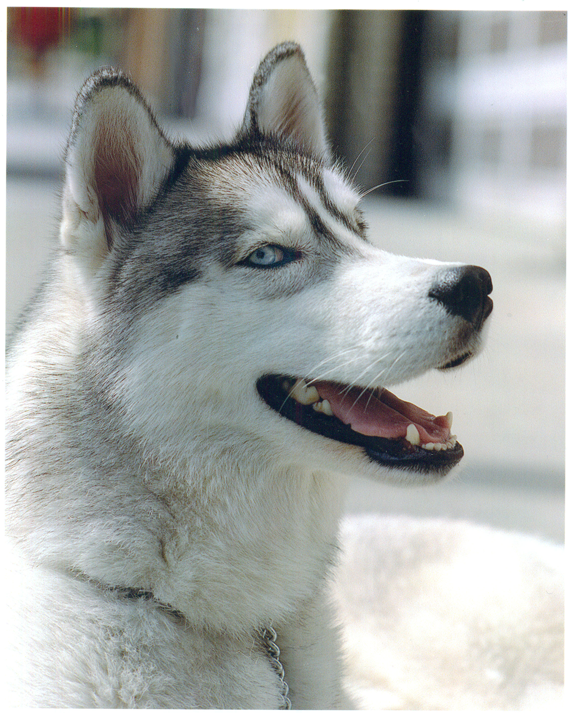 Husky on San Francisco sidewalk. Photo by Nancy Wong